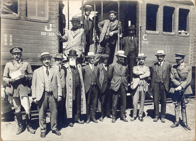 The Zionist Commission The reverse side of photograph number 51: 4th April [1918]. This is the [Zionist] Commission on their way to Jaffa via Lydda. Taken at G.H.Q. station where the Major [Ormsby Gore] and Waley went to meet them and tell them what to do. Standing from right to left: Major Ormsby Gore, Dr.Weizmann, Joseph Cowen,Mr. Sieff, Prof. Sylvain Levi, Leon Simon, Levontine, Glickstein, Cohen (clerk),Waley. On the carriages from right to left: Rosenheck, Aaron Aaronsohn, Walter Meyer, Dr. Eder, Alon